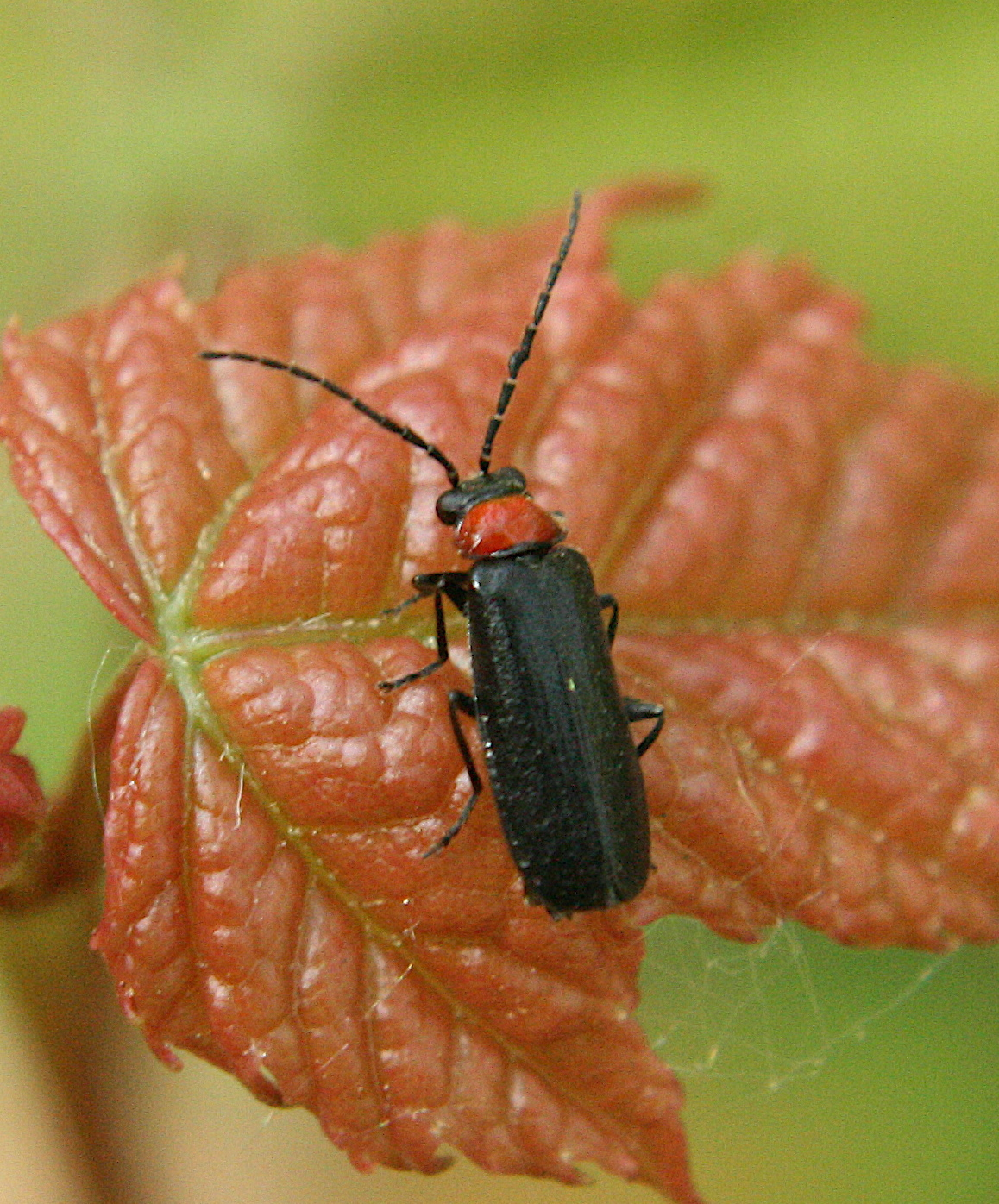 Soldier beetle (Silis percomis) in Fort Custer State Park, Augusta, Michigan, USA.